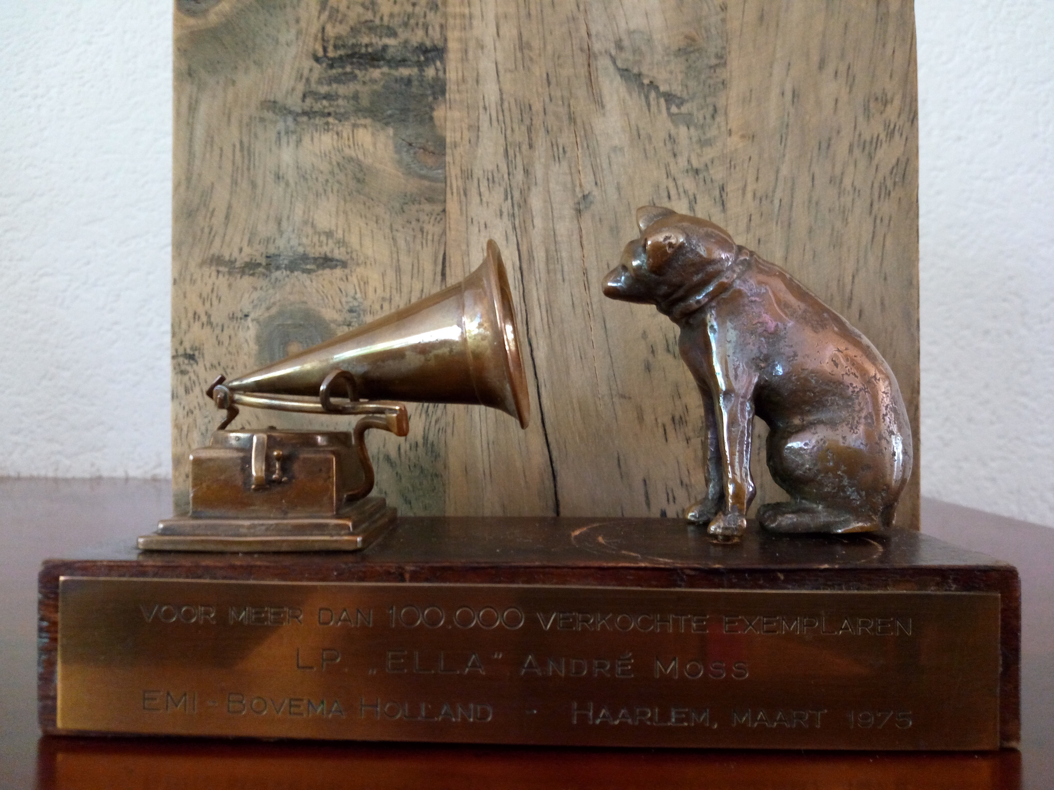 Gouden Hond alias His Master's Voice, Dutch music award from EMI/Bovema, in this case for Jack Jersey and André Moss